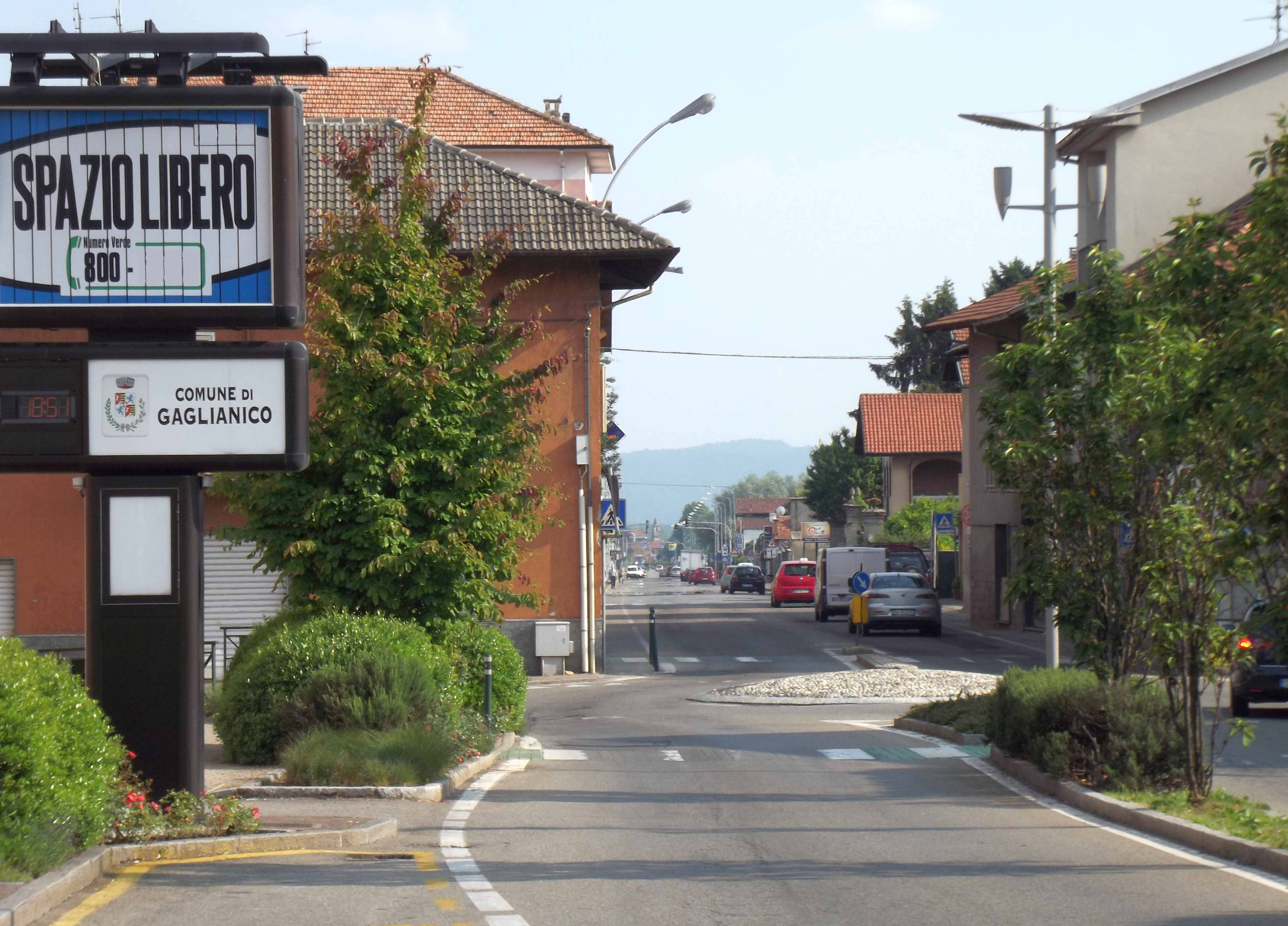 Gaglianico (BI, Italy): former national road 143